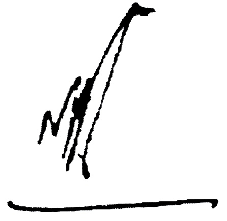 Signature of Hadhrat Mirza Nasir Ahmad